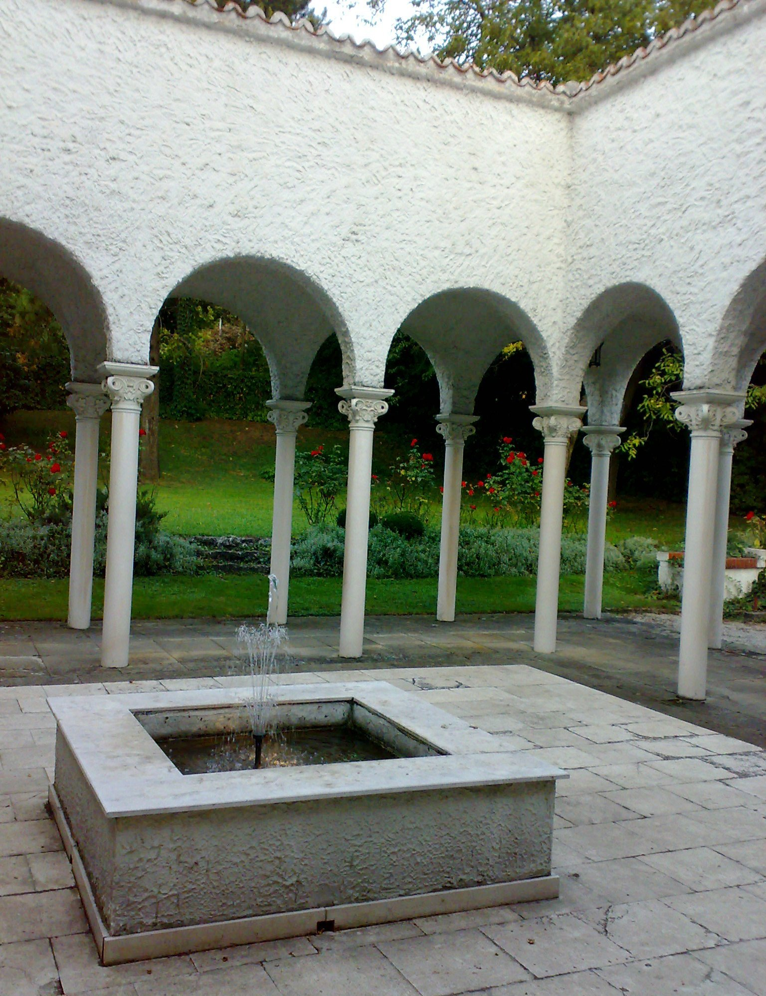 The interwar period film school of Beograd, presentday (2012) Embassy residence of Norway to Serbia